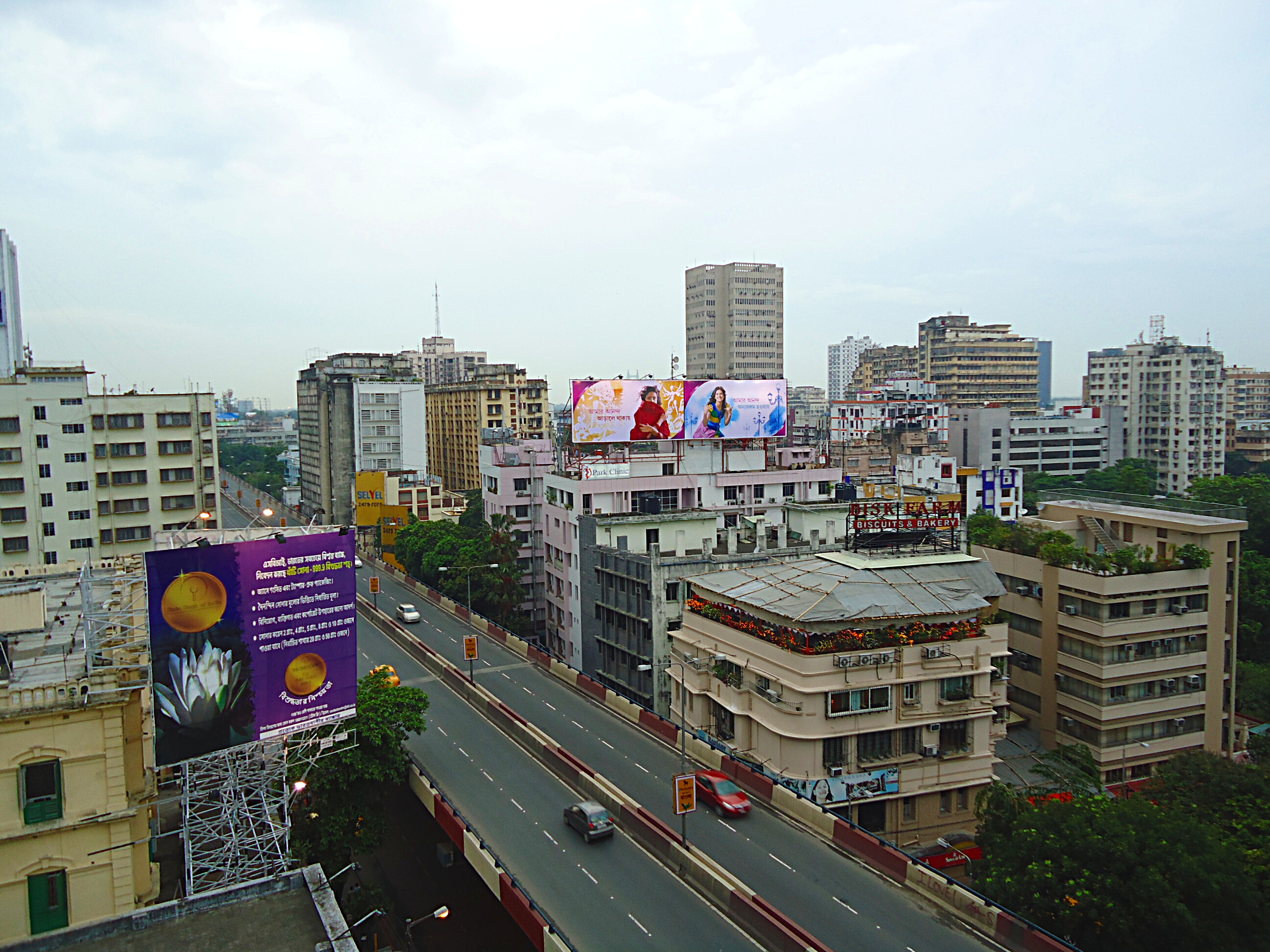 A view of the AJC Bose Road flyover towards Camac Street